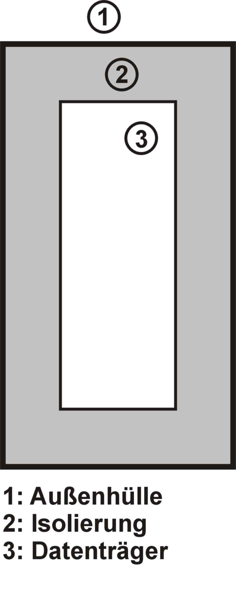 cross-section of a disaster ready memory